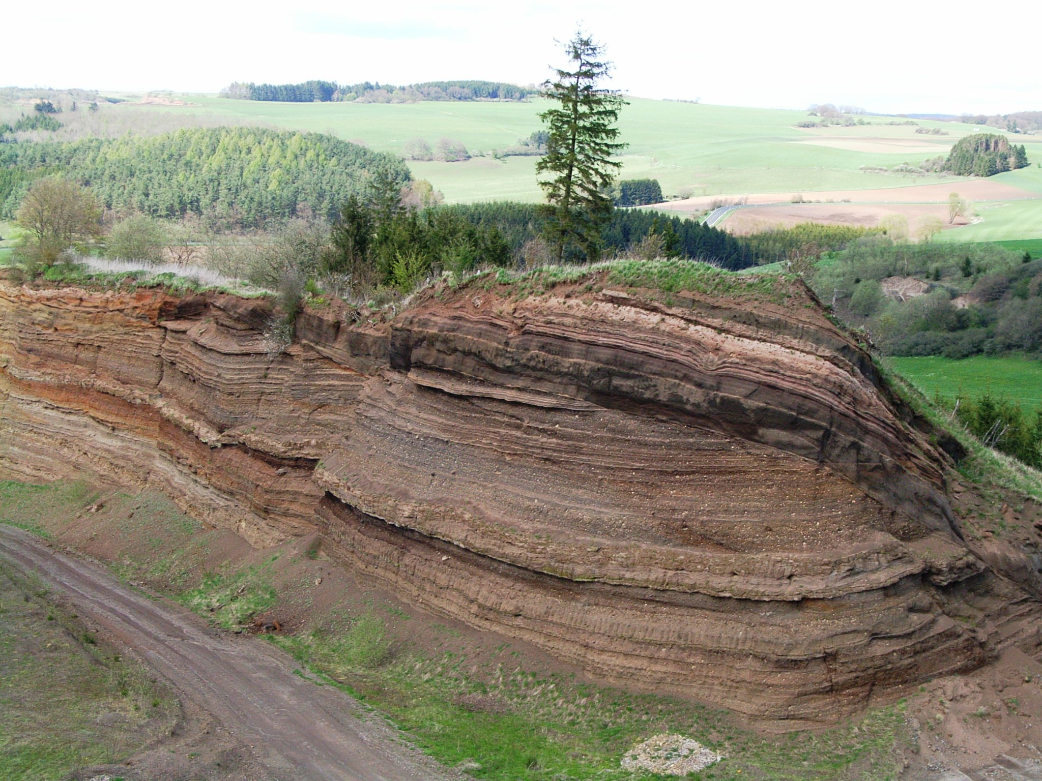 Rockeskyller Kopf, Germany. Quarry with volcanic beddings.